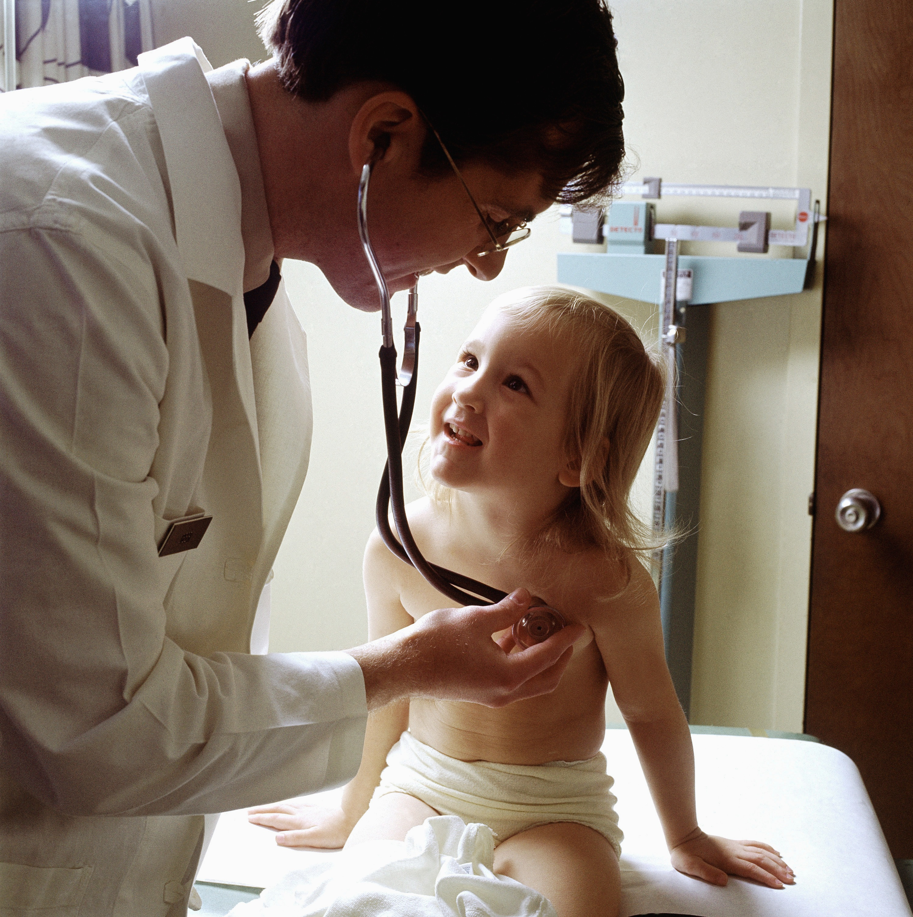 A male doctor from the United States uses a stethoscope to examine a young girl's heart and lungs.